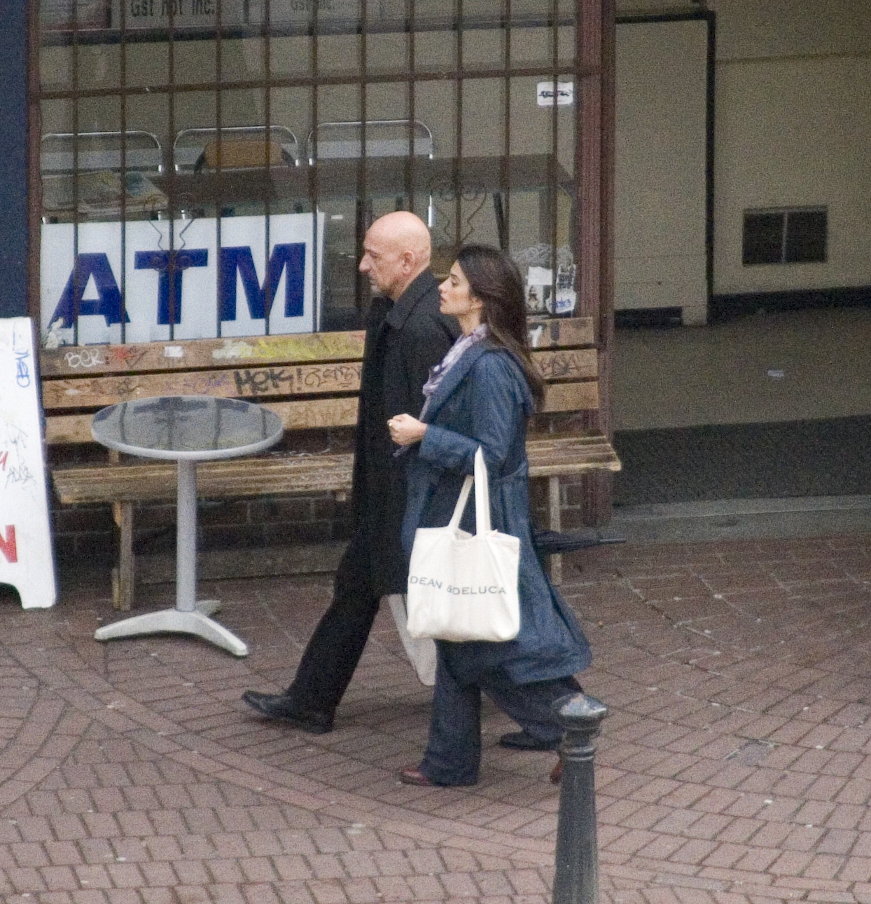 Penélope Cruz & Ben Kingsley